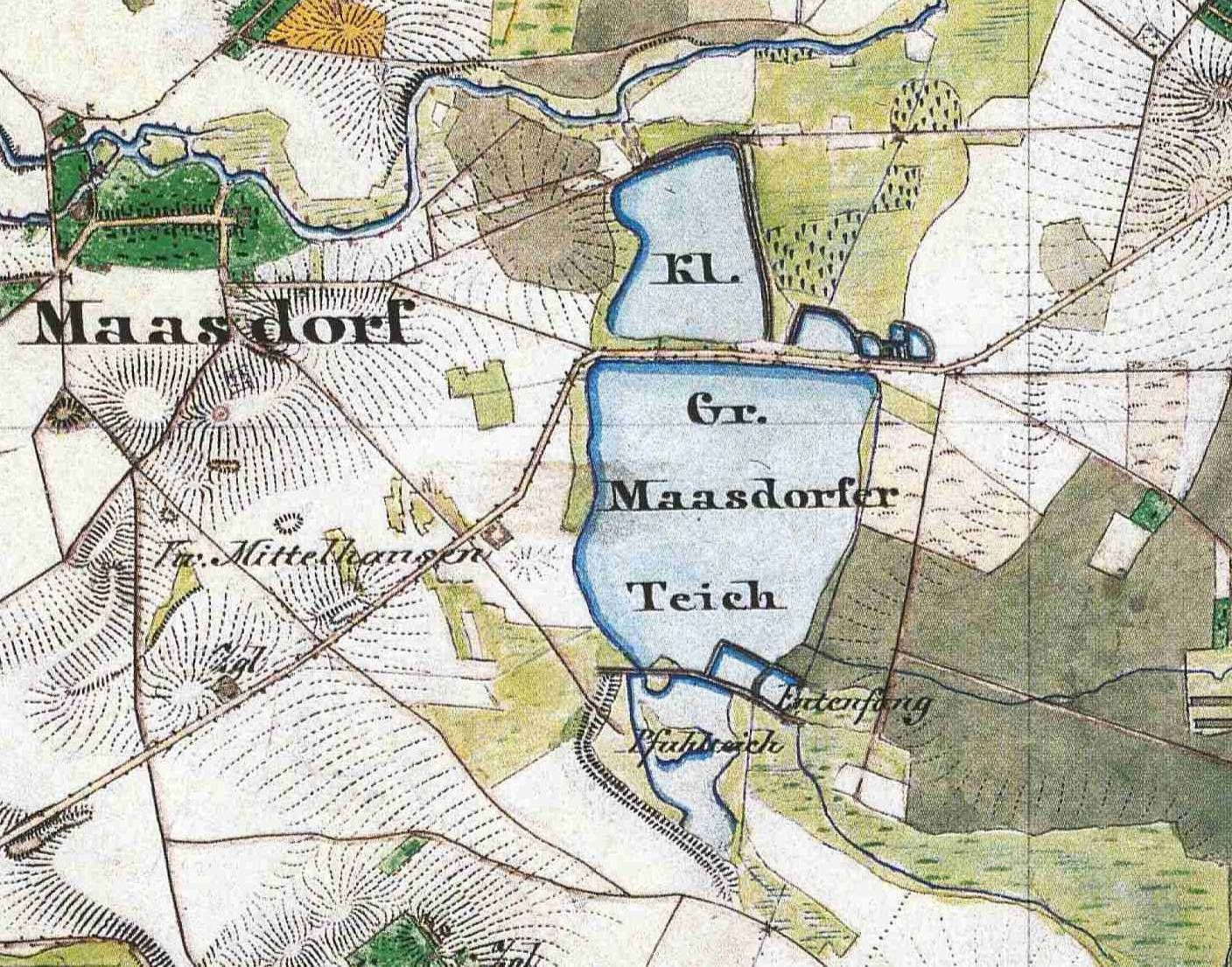 Maasdorfer Teiche, Lkr. Elbe-Elster, Brandenburg, Germany, detail from the Urmesstischblatt Sheet 4446 Liebenwerda, drawn in 1847